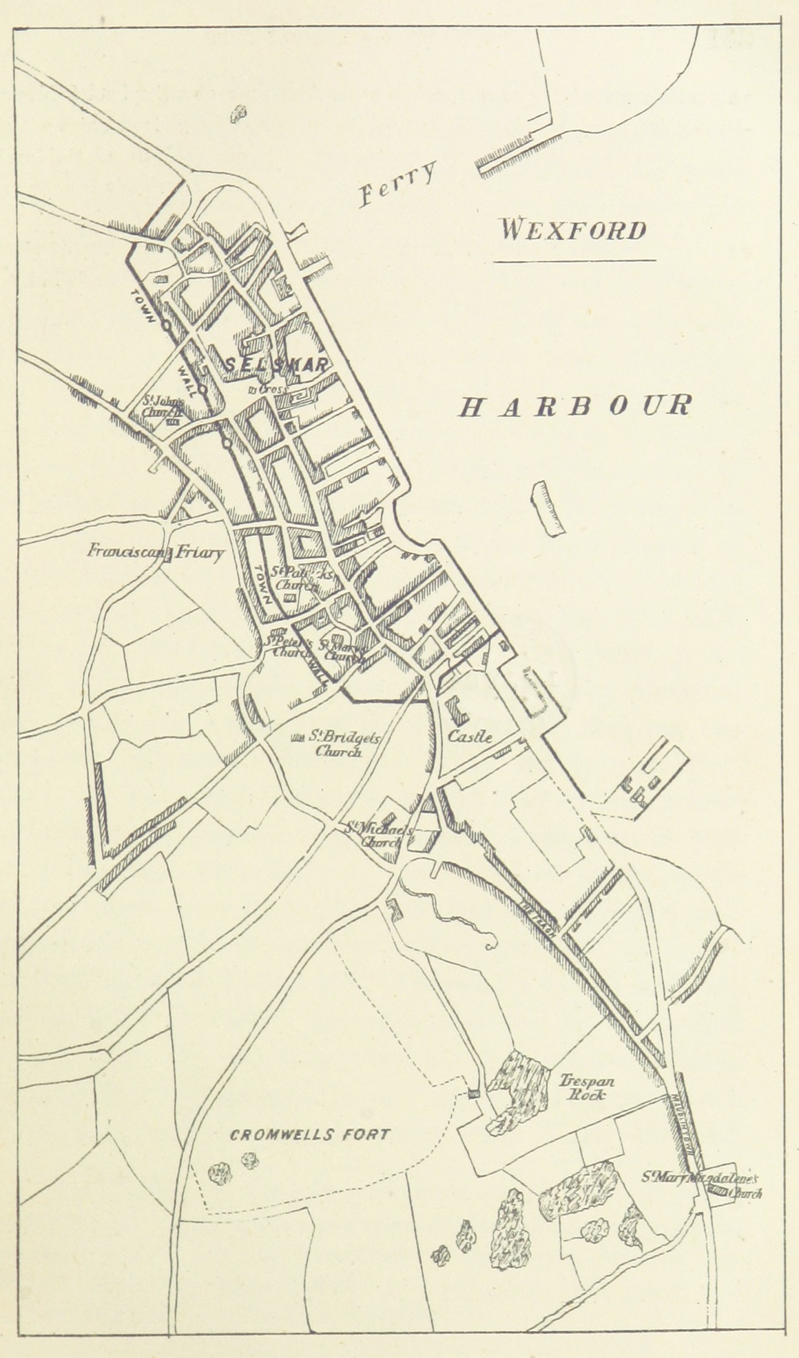 View this map on the BL Georeferencer service. Image taken from: Title: "Cromwell in Ireland, a history of Cromwell's Irish Campaign ... with map, plans and illustrations" Author: MURPHY, Denis. Shelfmark: "British Library HMNTS 9509.bb.8." Page: 185 Place of Publishing: Dublin Date of Publishing: 1883 Publisher: Gill and Son Issuance: monographic Identifier: 002588807 Explore: Find this item in the British Library catalogue, 'Explore'. Download the PDF for this book (volume: 0) Image found on book scan 185 (NB not necessarily a page number) Download the OCR-derived text for this volume: (plain text) or (json) Click here to see all the illustrations in this book and click here to browse other illustrations published in books in the same year. Order a higher quality version from here.